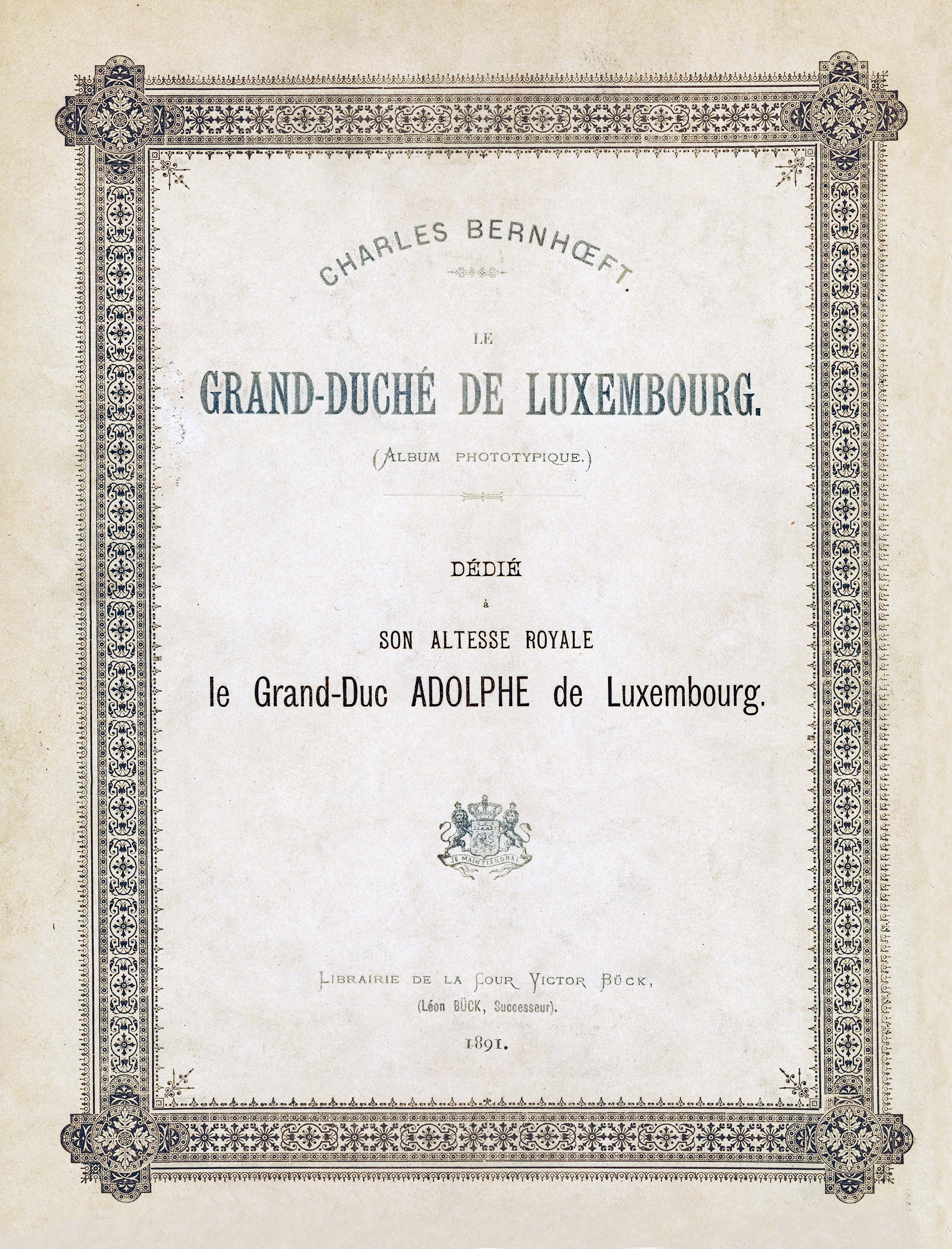 Charles Bernhoeft, Grand-Duché de Luxembourg (Album phototypique), 1891. Internal cover.